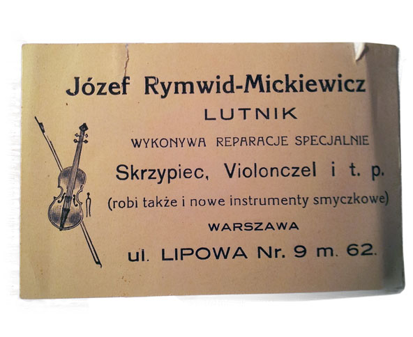 Business card of Józef Rymwid-Mickiewicz